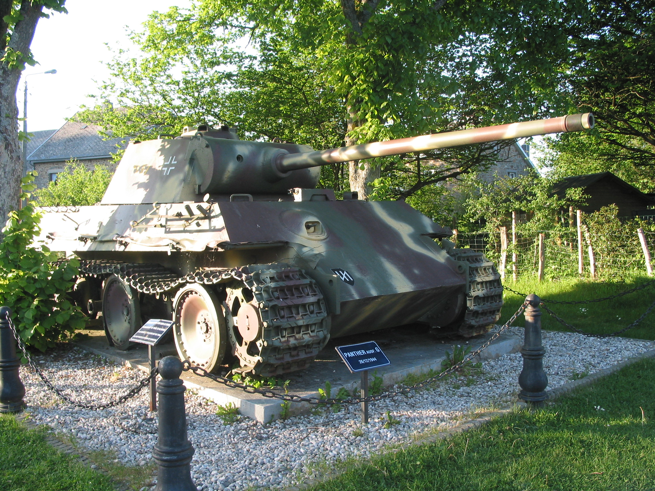 Manhay, Belgium: German "Panther tank" — Battle of the Bulge vestige (1944) in the village Grandmenil.